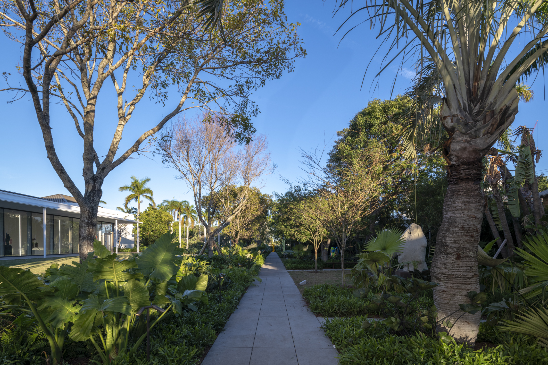 The Pamela and Robert B. Goergen Garden featuring a great lawn, outdoor sculpture collection, several smaller gardens, and opportunities for seating and reflection creating, in Lord Foster’s words, “a museum in a garden”